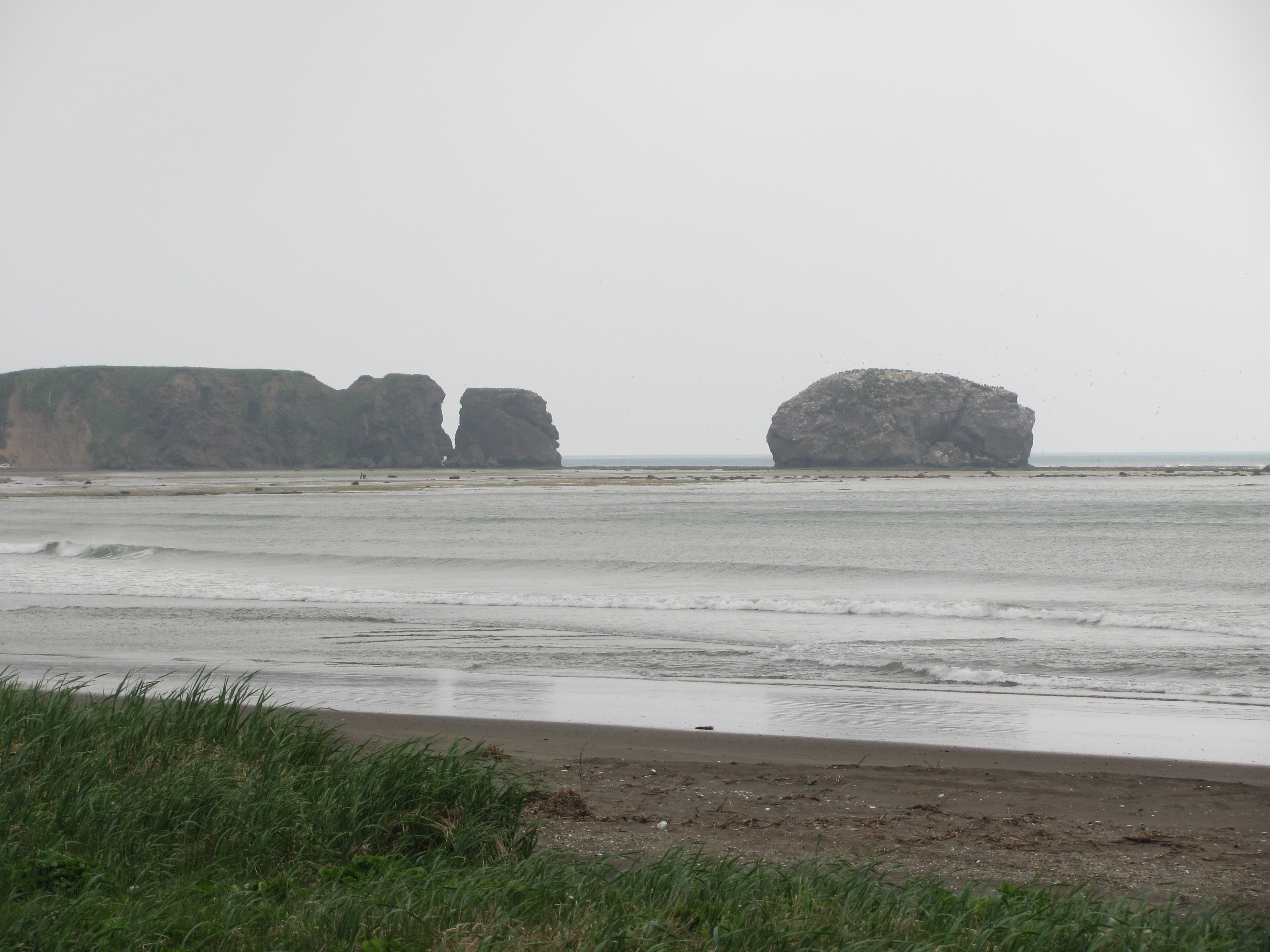 Zametny Island in Tihaya Bay, on the coast of the Sea of Okhotsk. View from Cape Tihii, Sakhalin island, Sakhalin Oblast.